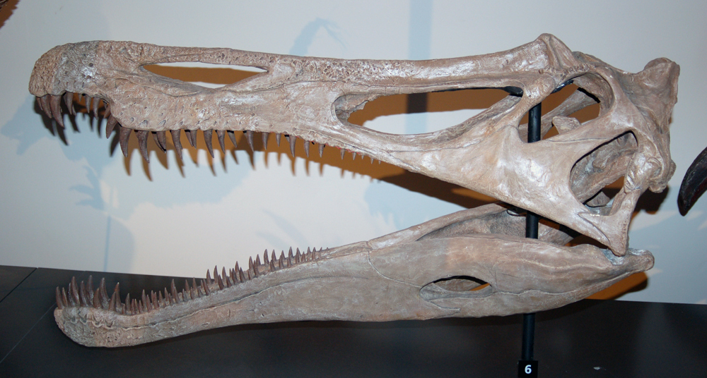 Photo: cast of a Suchomimus tenerensis skull at the Australian Museum, Sydney.